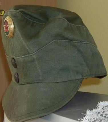 Hungarian army fatigue cap ("Bocskai")